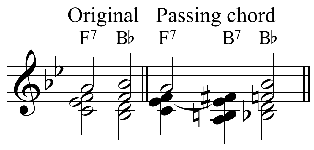 Created by Hyacinth (talk) 06:52, 12 December 2010 using Sibelius 5. Passing chord, B, allowing chromatic (semitone) motion from C to B (a whole-tone).